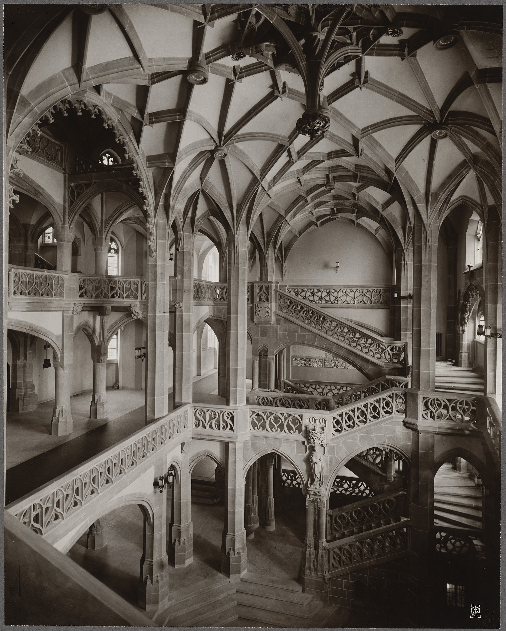 Thoemer&Mönnich, Amtsgericht Berlin-Wedding (1901-1906): Treppenhaus. Foto auf Karton, 40,6 x 31,6 cm (inkl. Scanränder). TU Architekturmuseum Inv. Nr. F 6357. Thoemer & Mönnich (gest. 1918) Amtsgericht, Berlin-Wedding Beteiligt: Franz Kullrich (1864-1917, als Fotograf) Inhalt: Treppenhaus Projektzeit: 1901-1906 Gattung: Foto Material/Technik: Foto auf Karton Maße: 40,6 x 31,6 cm Ort: Berlin Straße: Brunnenplatz 1 Inventarnummer: F 6357 URL